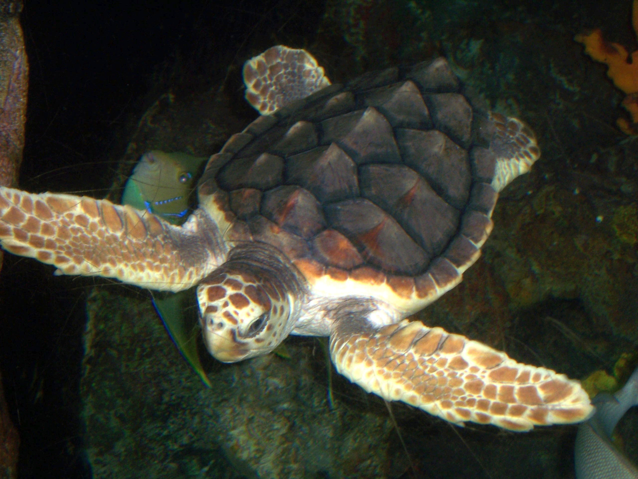 A loggerhead sea turtle in the National Aquarium in Washington DC